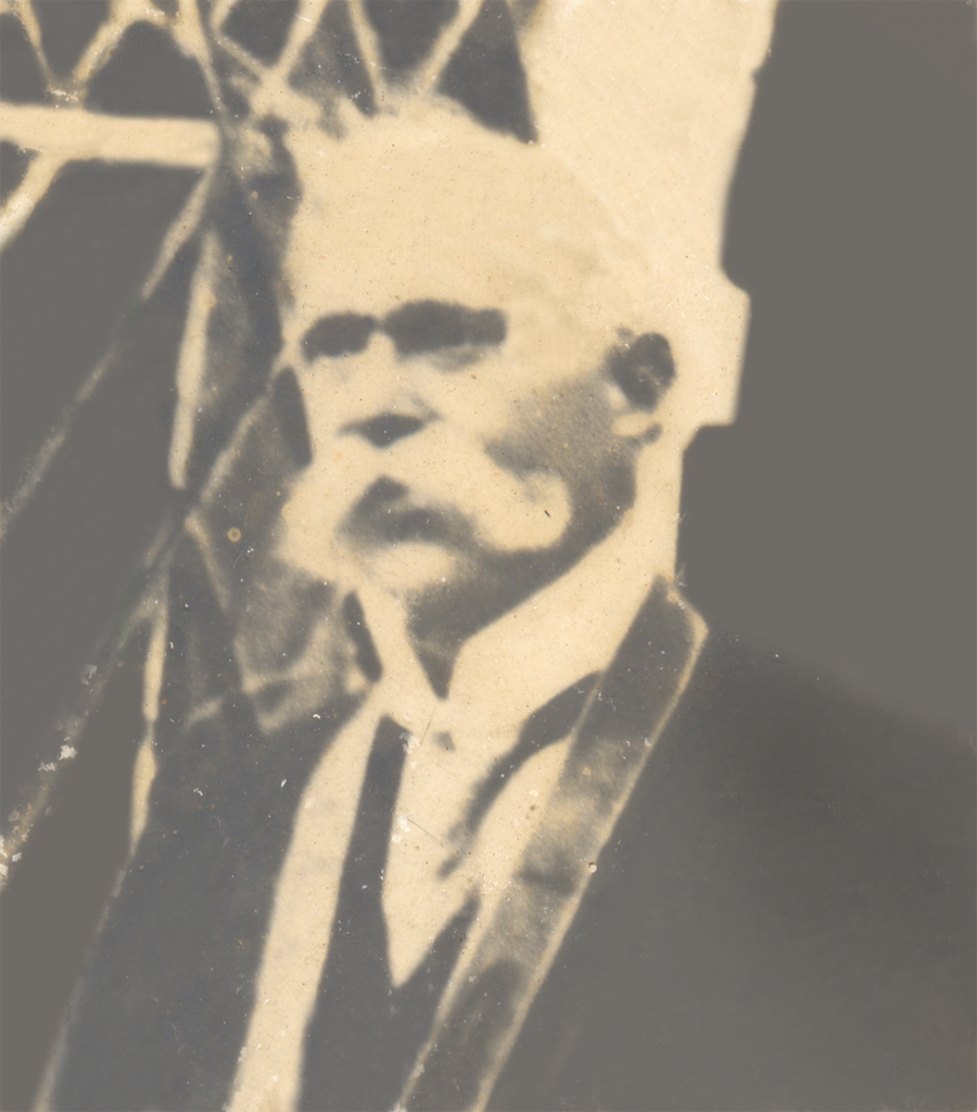 great social reformer of kerala and renaissance leader Dr. Ayathan Gopalan